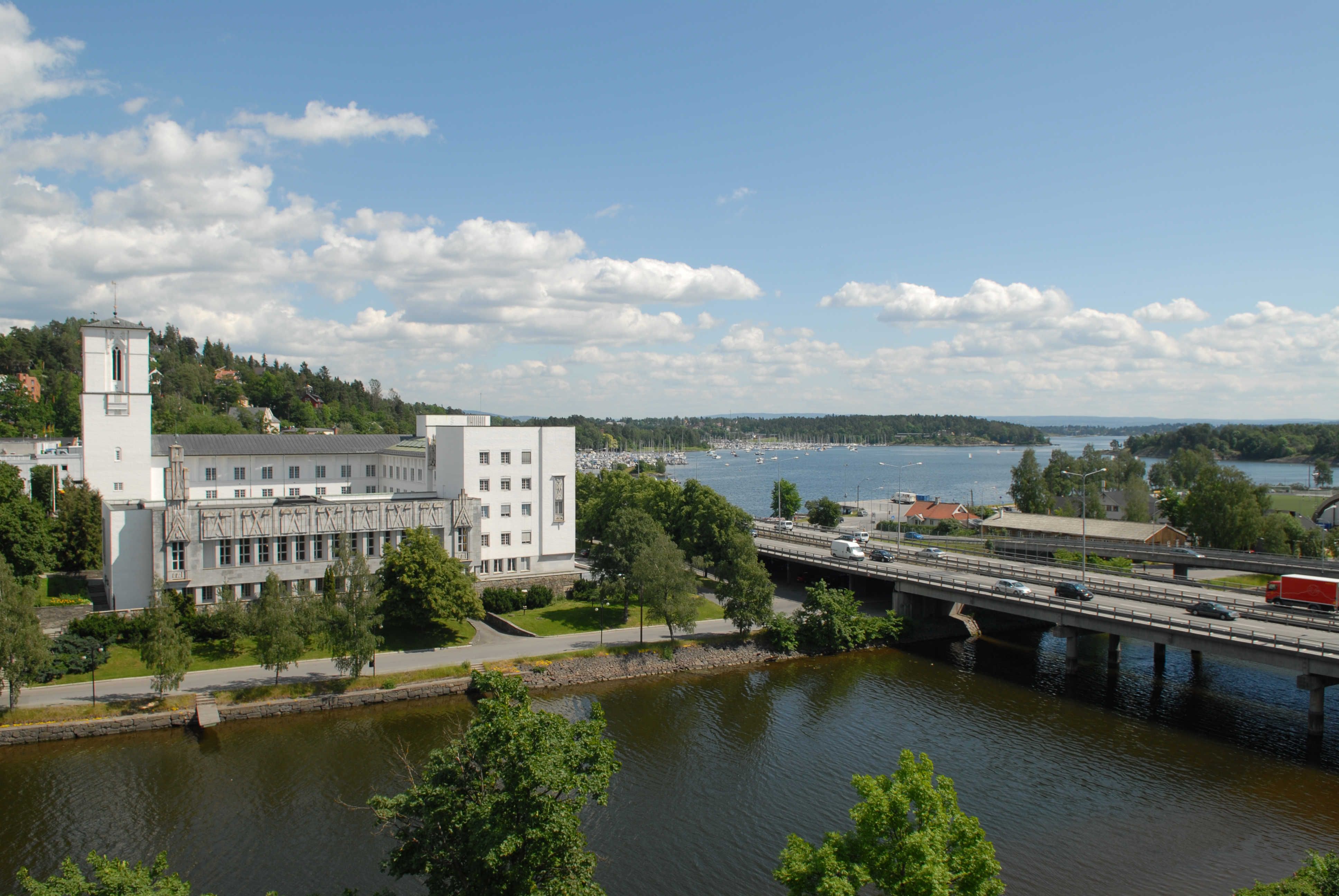 Town Hall of Bærum Minicipality with highway E18 and the Oslo fjord in the background.